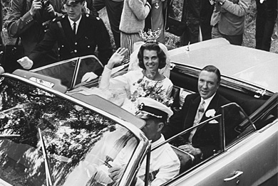 Wedding of Margaretha, Princess of Sweden and John Ambler.